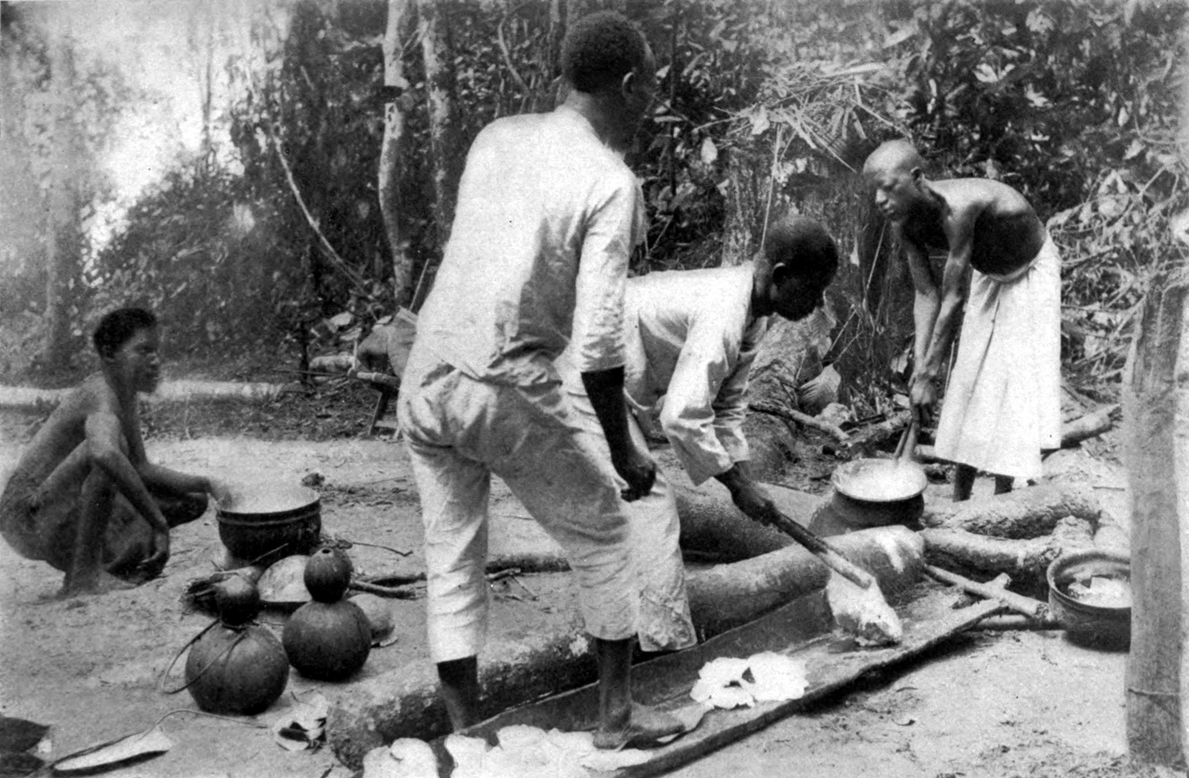 Melting Latex of Rubber in Forest of Lusambo (Lusambo-Kassai) - p. 412